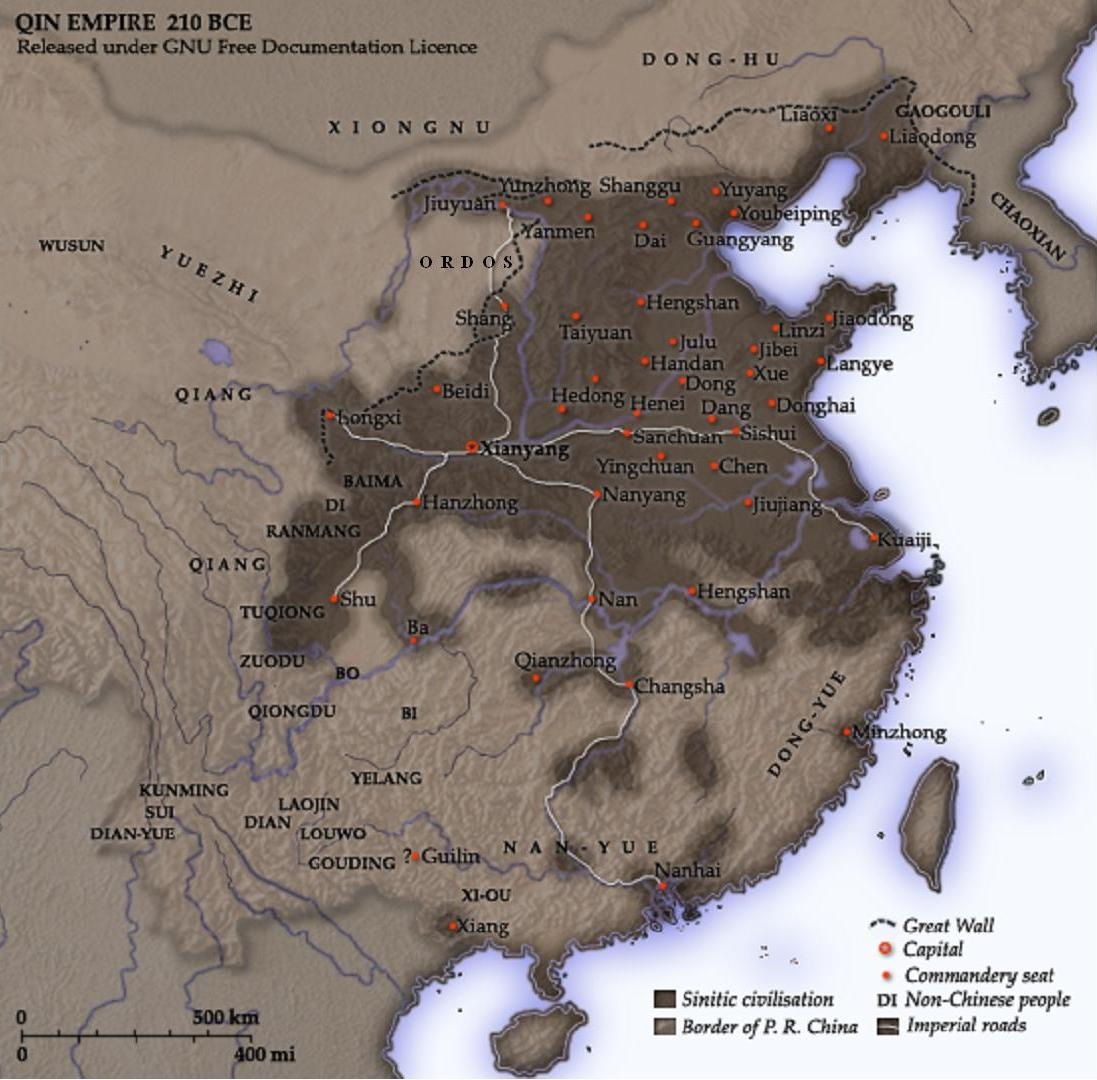 Qin Empire with Ordos. 210 BCE